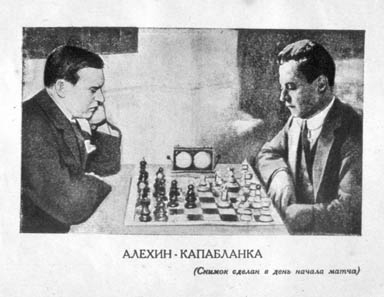 Photomontage [1] of Capablanca and Alekhine. The left part of the montage is taken from a photo of Alekhine taken in March 1926 in Semmering (Austria). The right part of the montage is taken from a flopped version of a photo of Capablanca taken before 1926.